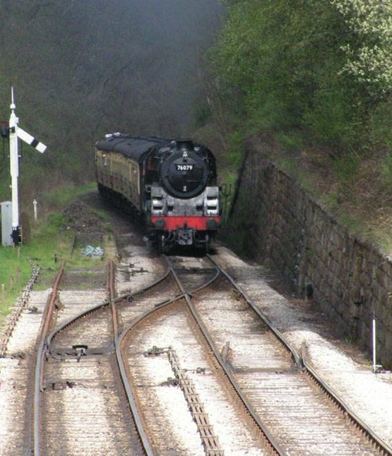 British Rail Standard Class 4 No. 76079 climbs into Goathland railway station on the preserved North Yorkshire Moors Railway. Catch points, trap points and a sand-drag are shown in the photograph.